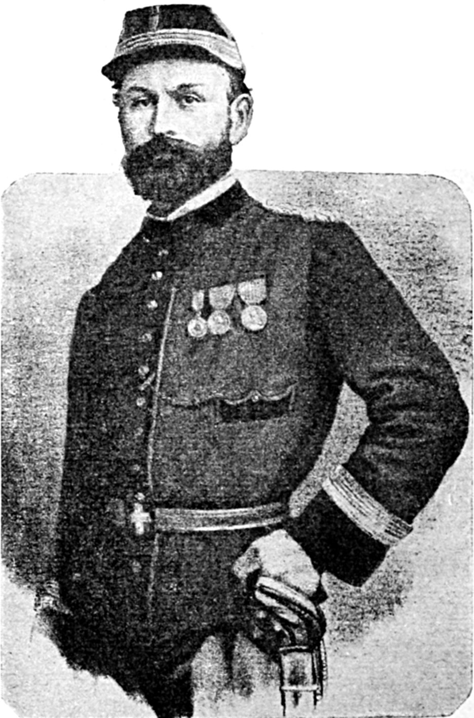 Illustration from book Storia dei Mille by Giuseppe Cesare Abba - Giuseppe Dezza